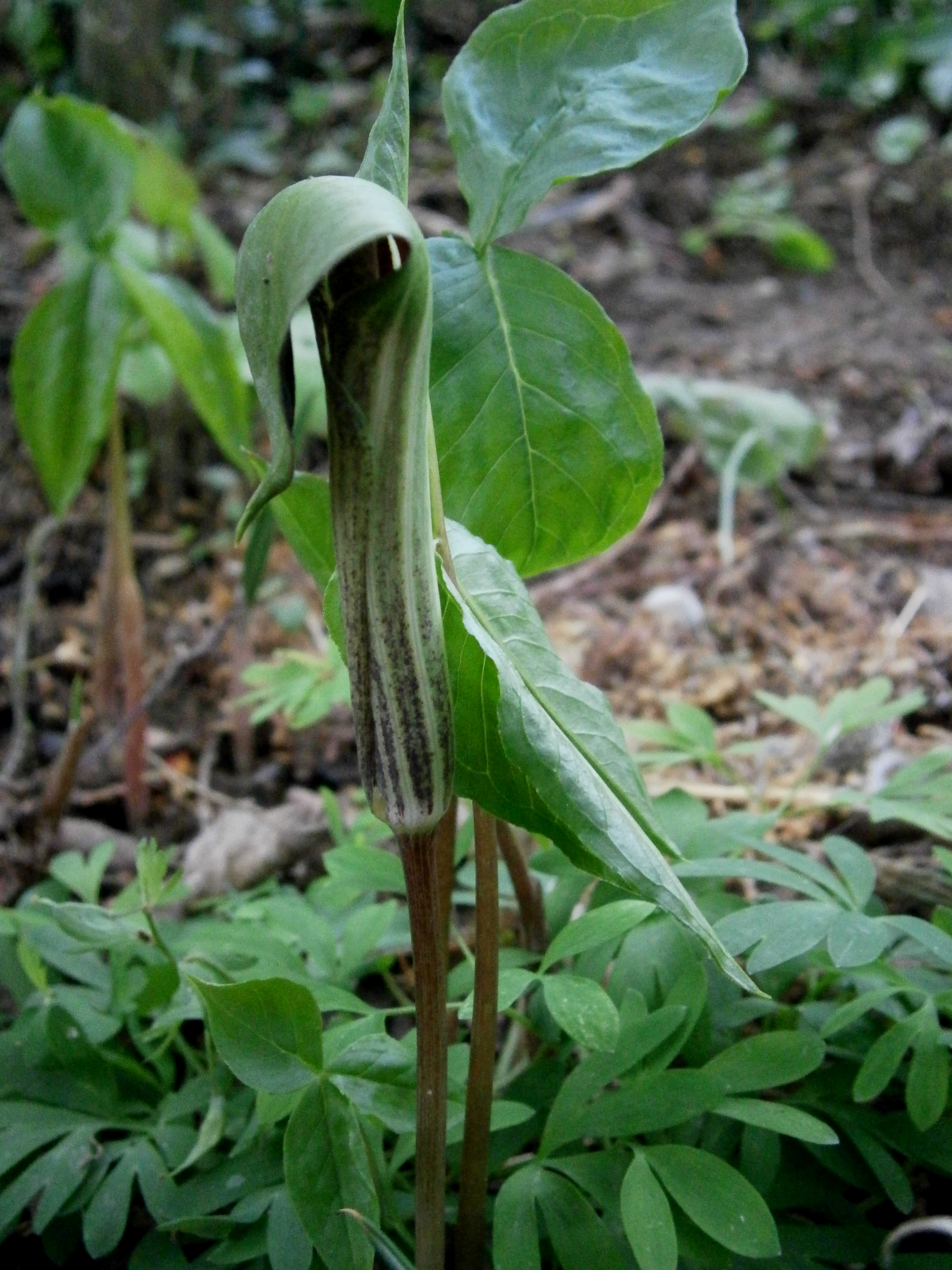 Arisaema triphyllum opening